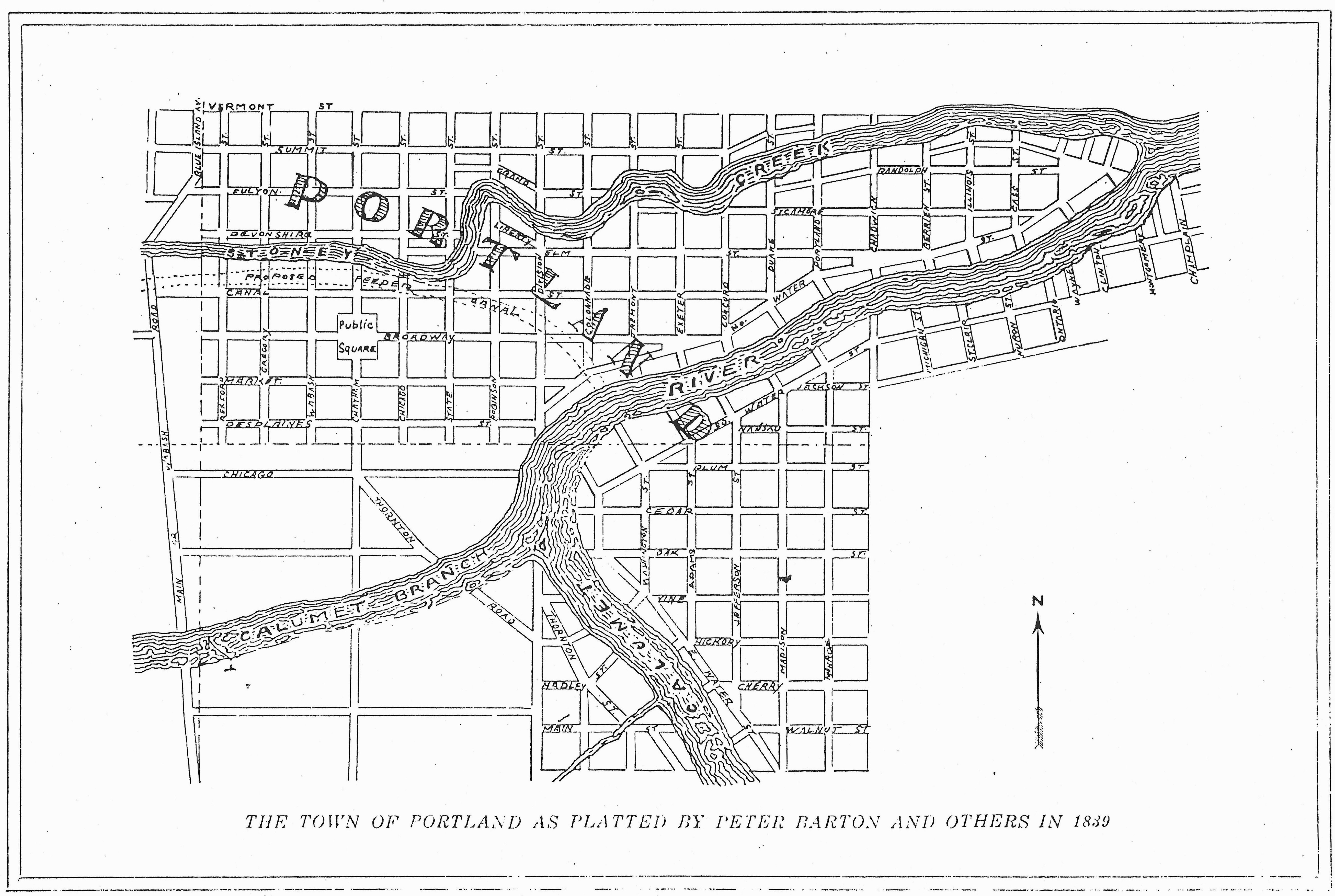 Sketch of the plat of Portland, Illinois, as derived from the document registered with the state of Illinois on April 13, 1839.